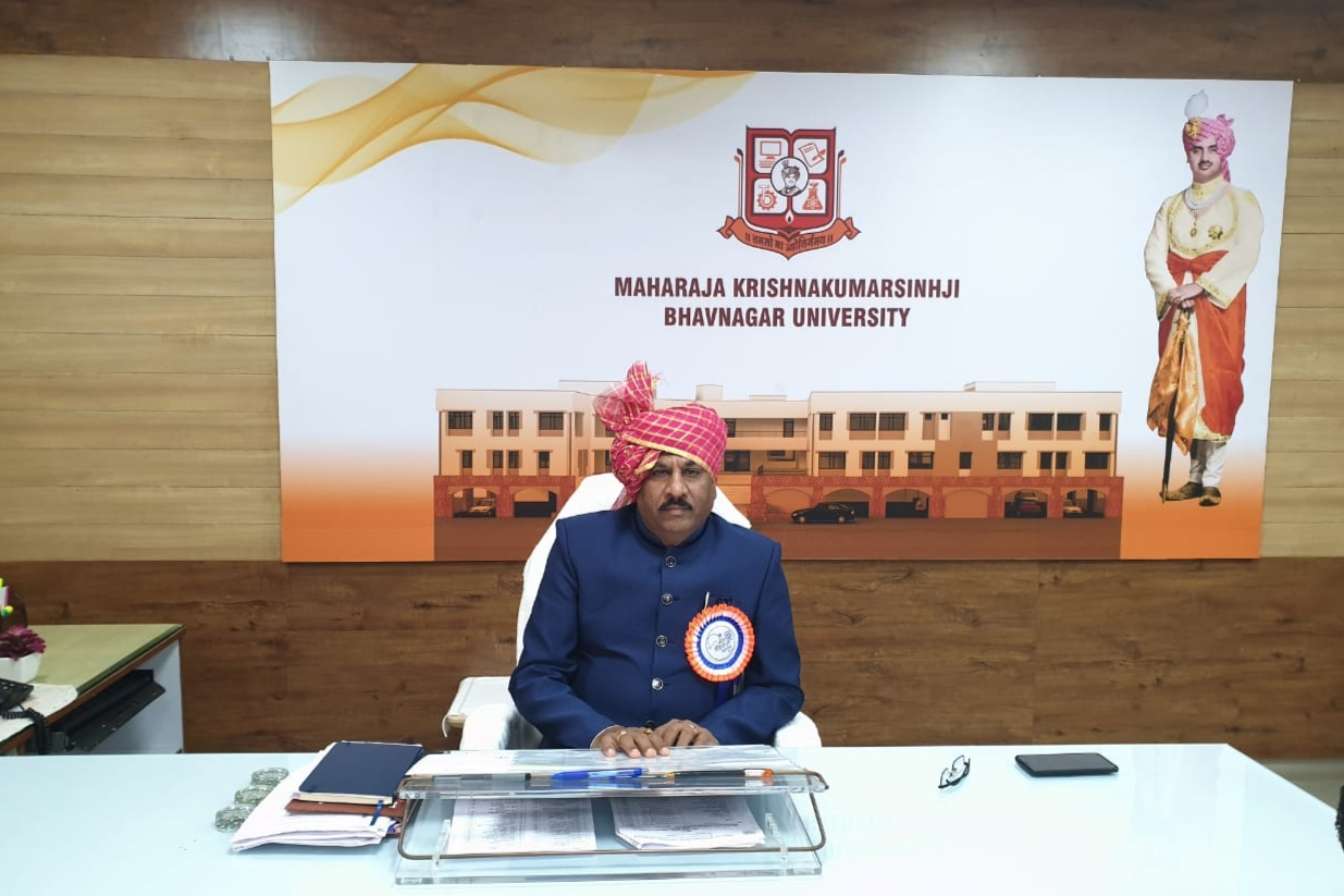 Picture shows Dr. Mahipatsinh Chavda , 15th Vice Chancellor of Bhavnagar University in traditional 'Safa' during Rang Mohan 2019 Festival.